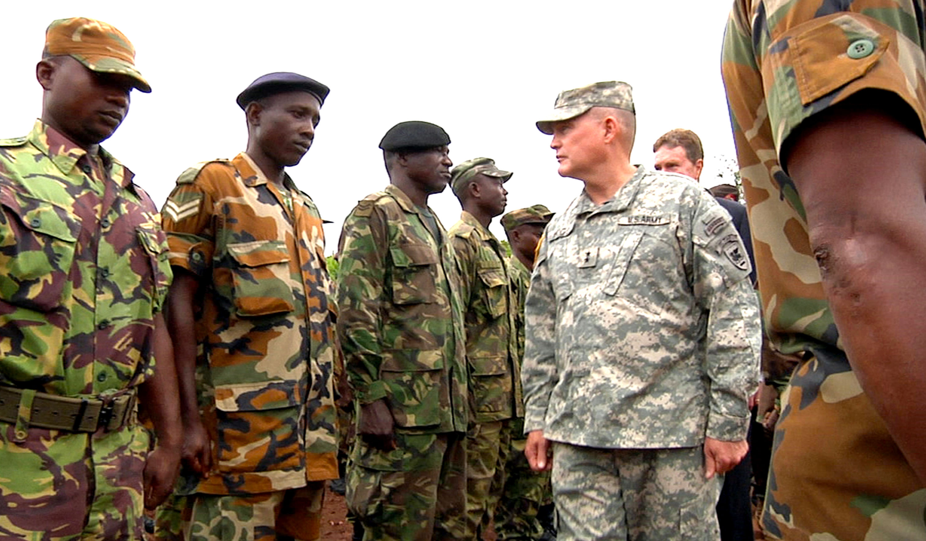 Maj. Gen. David R. Hogg (center), commander U.S. Army Africa inspects Sierra Leone troops during a deployment ceremony May 20. Nearly 1,000 Republic of Sierra Leone Armed Forces personnel completed training for an upcoming African Union Mission in Somalia (AMISOM) deployment. (U.S. Army Africa photo) To learn more about U.S. Army Africa visit our official website at Official Twitter Feed: Official Vimeo video channel: Join the U.S. Army Africa conversation on Facebook